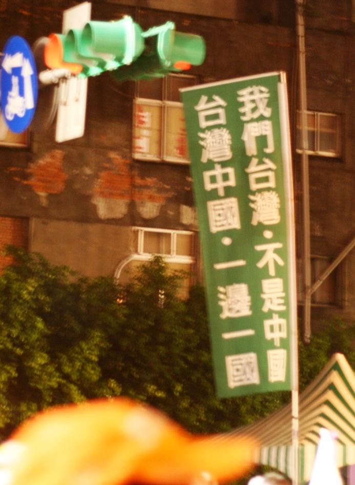 Anti-Ma Ying-jeou Demonstration in Taipei, TAIWAN, 2012. The slogan means: "We Taiwan is not China. Taiwan and China, One County on Each Side."客家語/Hak-kâ-ngî: 2012 ngièn fán-tui Mâ Yîn-kiú ke yù-hàng. Phiêu-ngî ke yi-sṳ he: "Ngài-teu Thòi-vân, m̀ he Chûng-koet; Thòi-vân Chûng-koet, yit piên yit koet".Bân-lâm-gú: 2012 nî hóan-tùi Má Eng-kiú ê iû-hêng. Piau-gí ê ì-sù sī: "Lán sī Tâi-oân, m̄ sī Tiong-kok. Tâi-oân Tiong-kok, chi̍t piⁿ chi̍t kok".